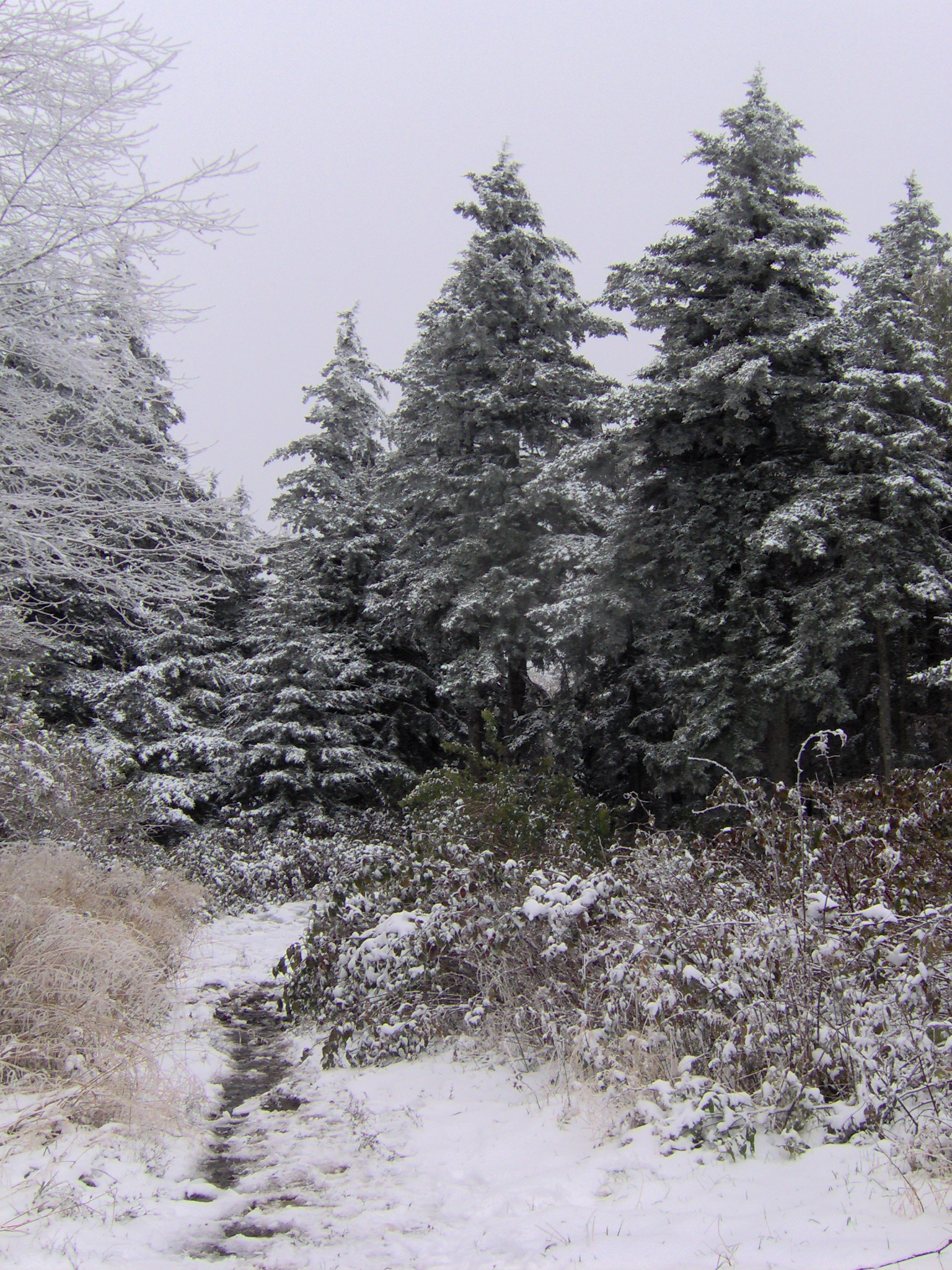 Red spruce trees along the Baxter Creek Trail at the 5,842-ft (1,781m) summit of Mount Sterling in the Great Smoky Mountains of Haywood County, North Carolina, USA.